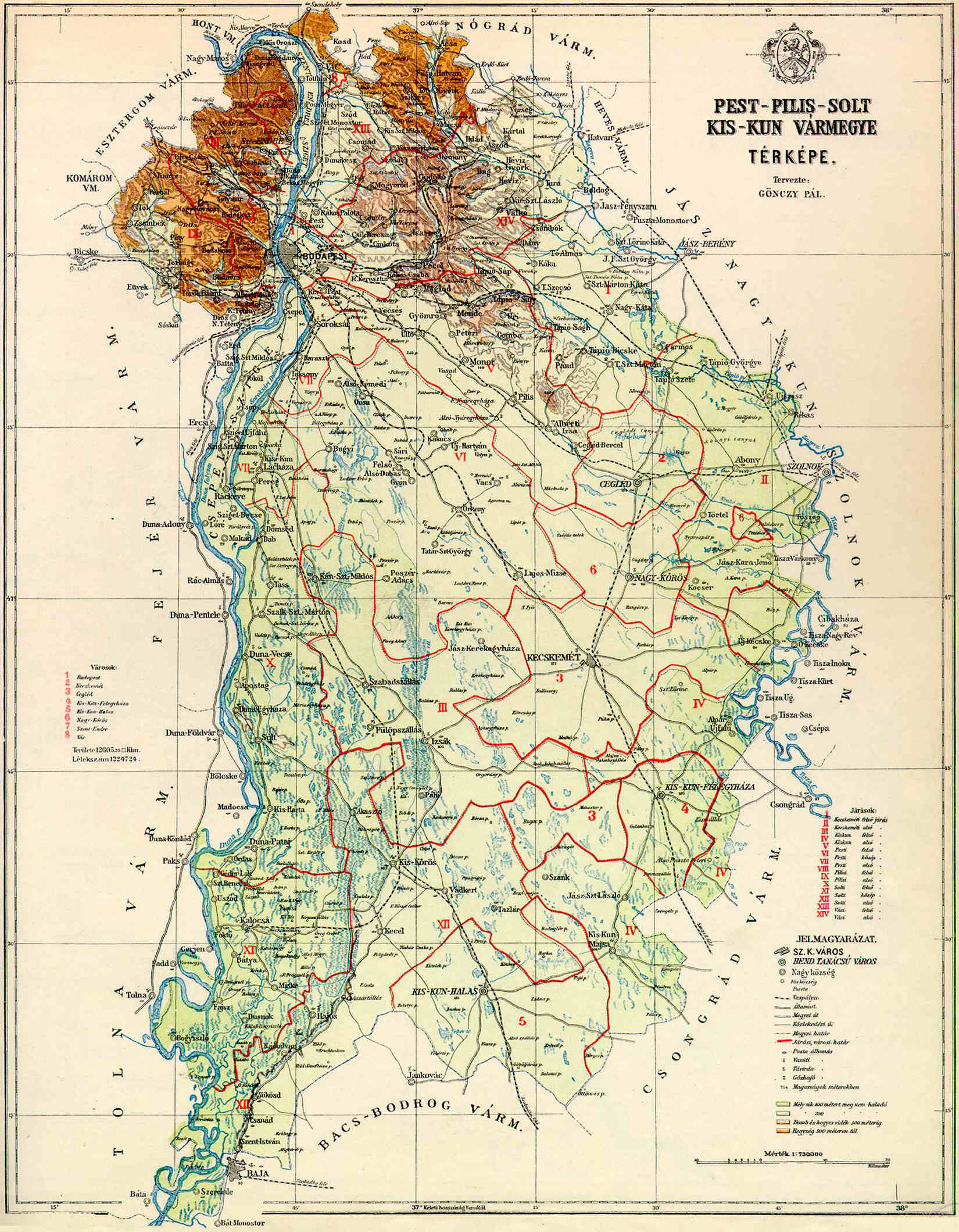 County of Pest-Pilis-Solt-Kiskun in the pre-Trianon Kingdom of Hungary. Komitat Pest-Pilis-Solt-Kiskun w Królestwie Węgier przed traktatem w Trianon.